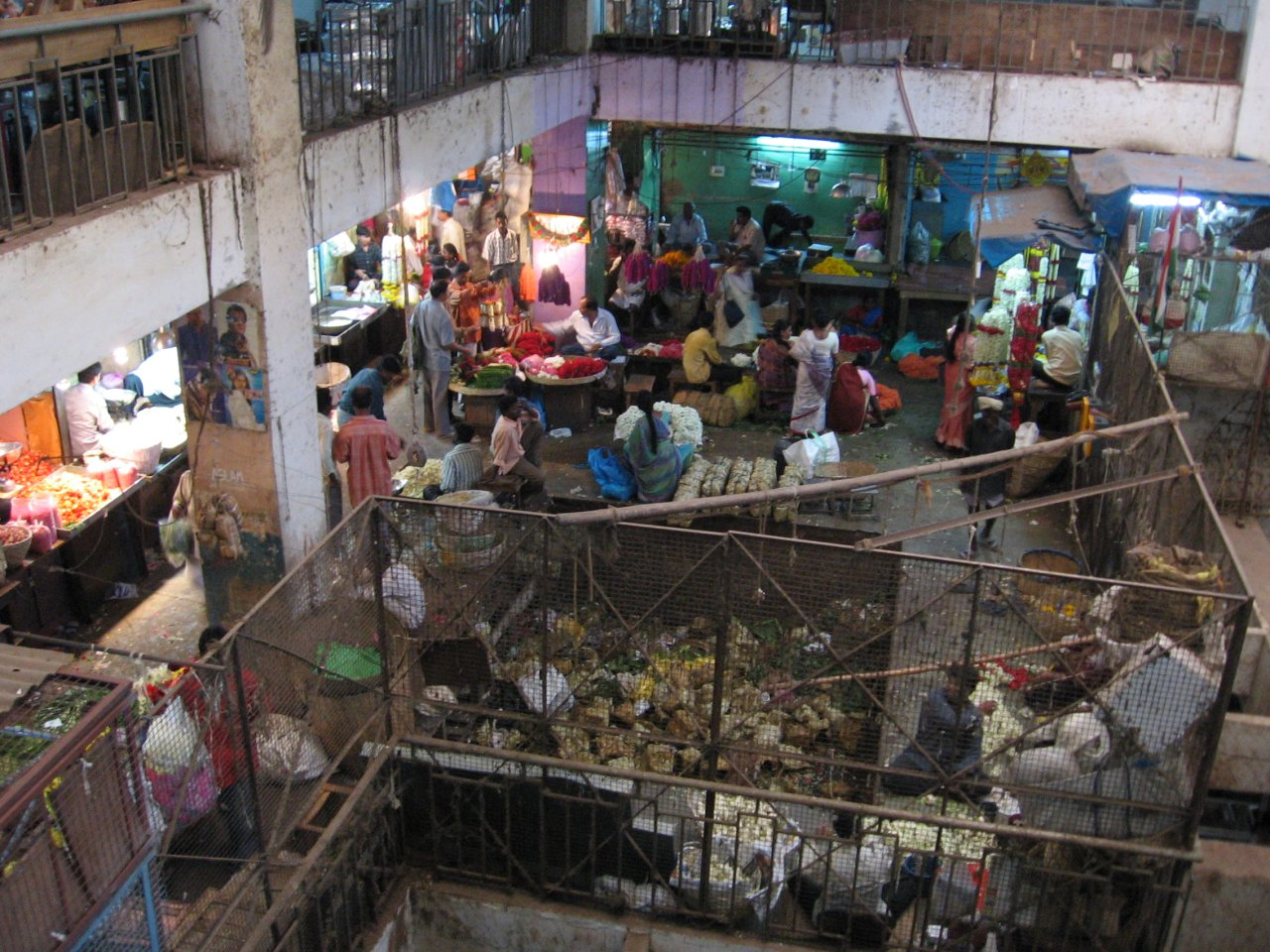 Public market of Bangalore.